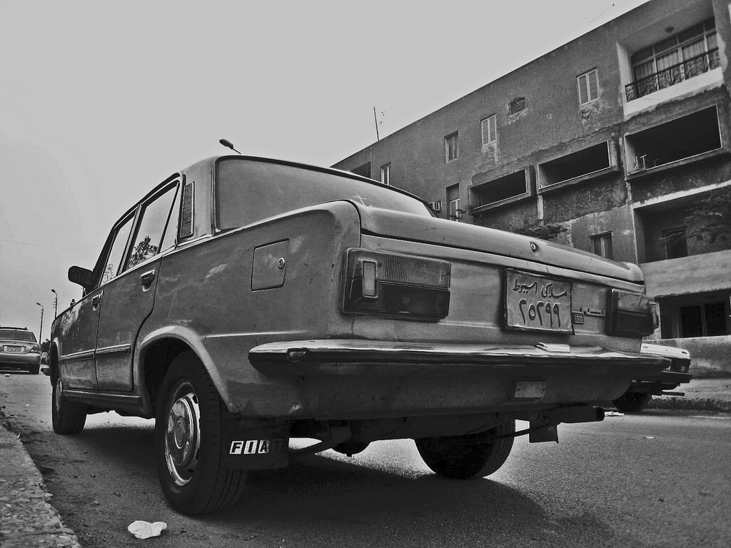 Nasr 125 - Polski Fiat 125p produced under FSO license by Nasr between 1972 and 1983. The vehicle on the picture is based on MR'75, MR'76 or MR'77 version of Polski Fiat 125p (as evidenced by the horizontal rear lights, simple bumpers without the "fangs" and the presence of the lock on the trunk).